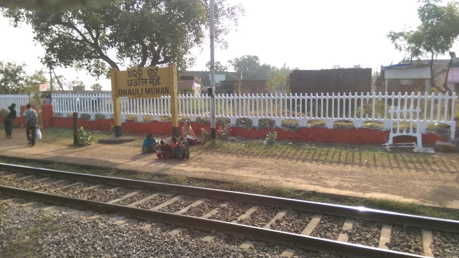 This is the Picture of Dhulimuhan railway station